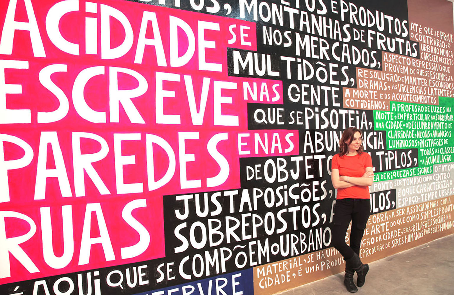 Julia Csekö, "A Coney Island of the Mind series - text of Henri Lefbvre," 2012, acrylic on wall, 12x20". Site specific mural for a solo show at Oscar Cruz Gallery, São Paulo, Brazil.